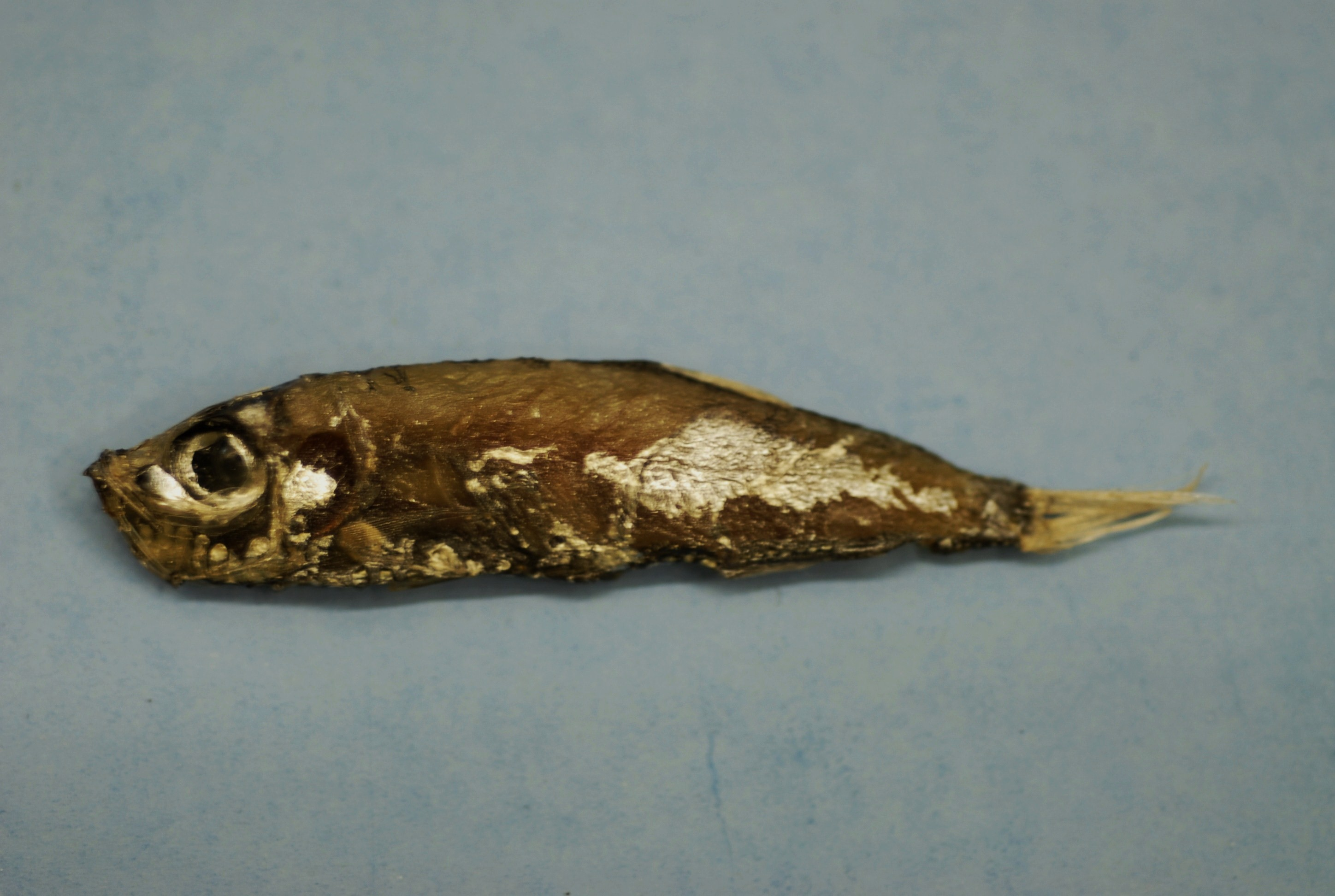 Atlantic pearlside (Maurolicus weitzmani). Gulf of Mexico.